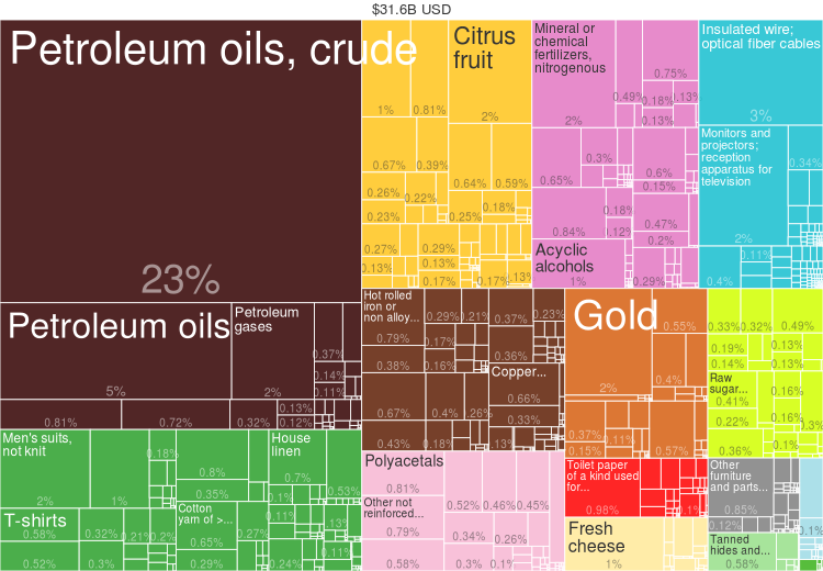 2014 Egypt Products Export Treemap